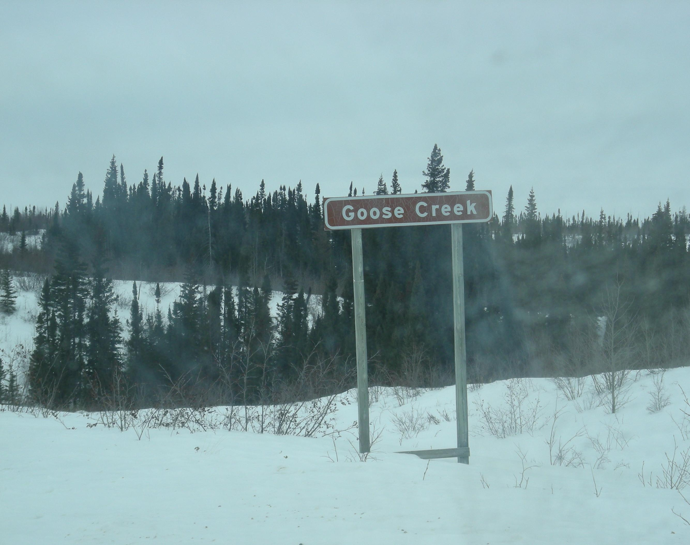 Goose Creek sign near Gillam, Manitoba